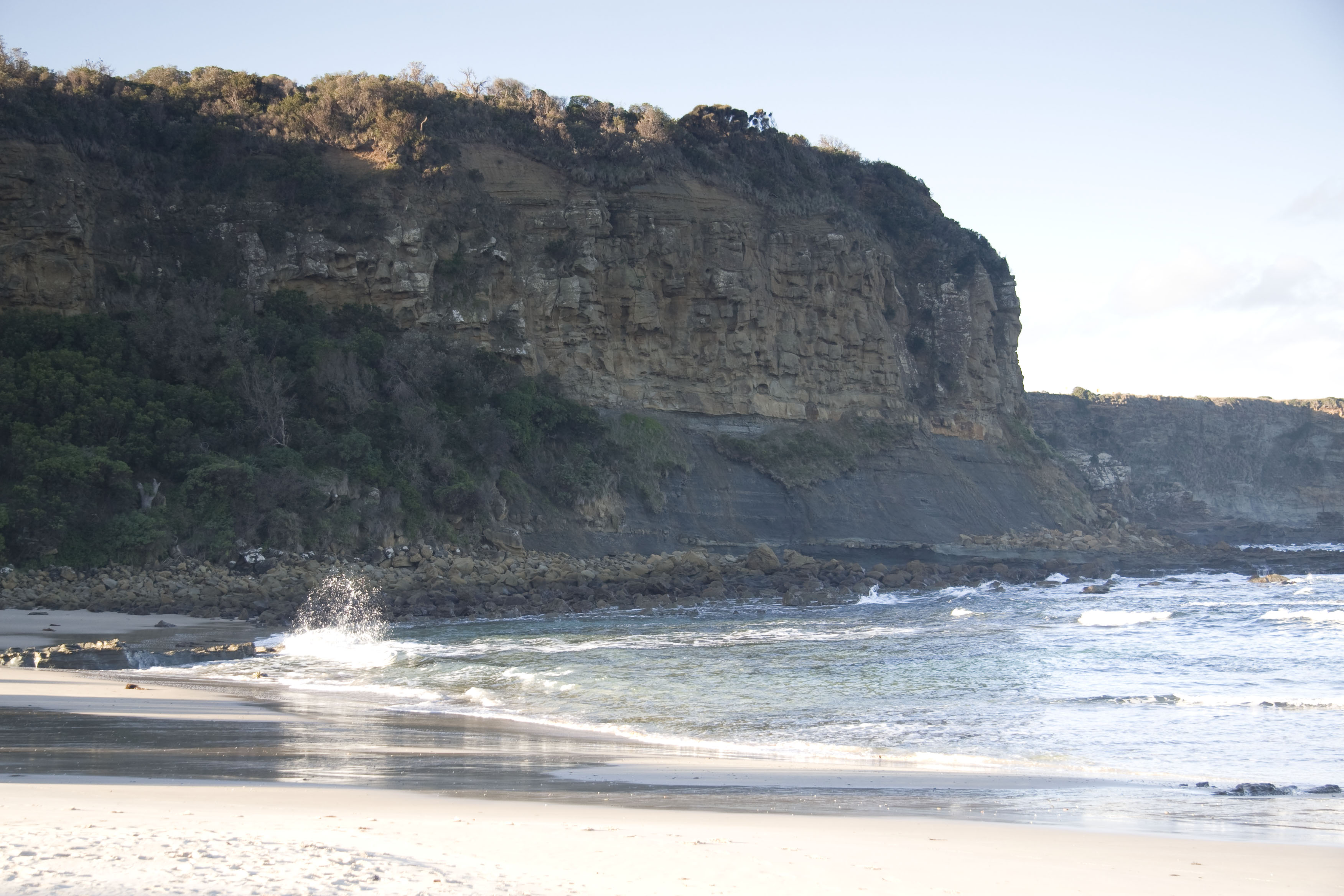 The beach at Cape Paterson, Victoria, Australia